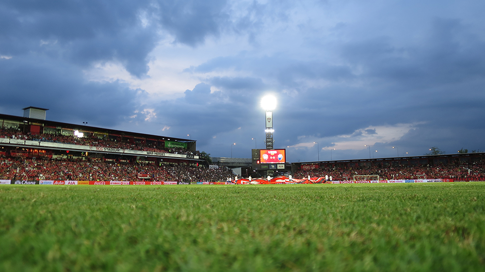 SCG Stadium 2017, Muang THong United vs Buriram United